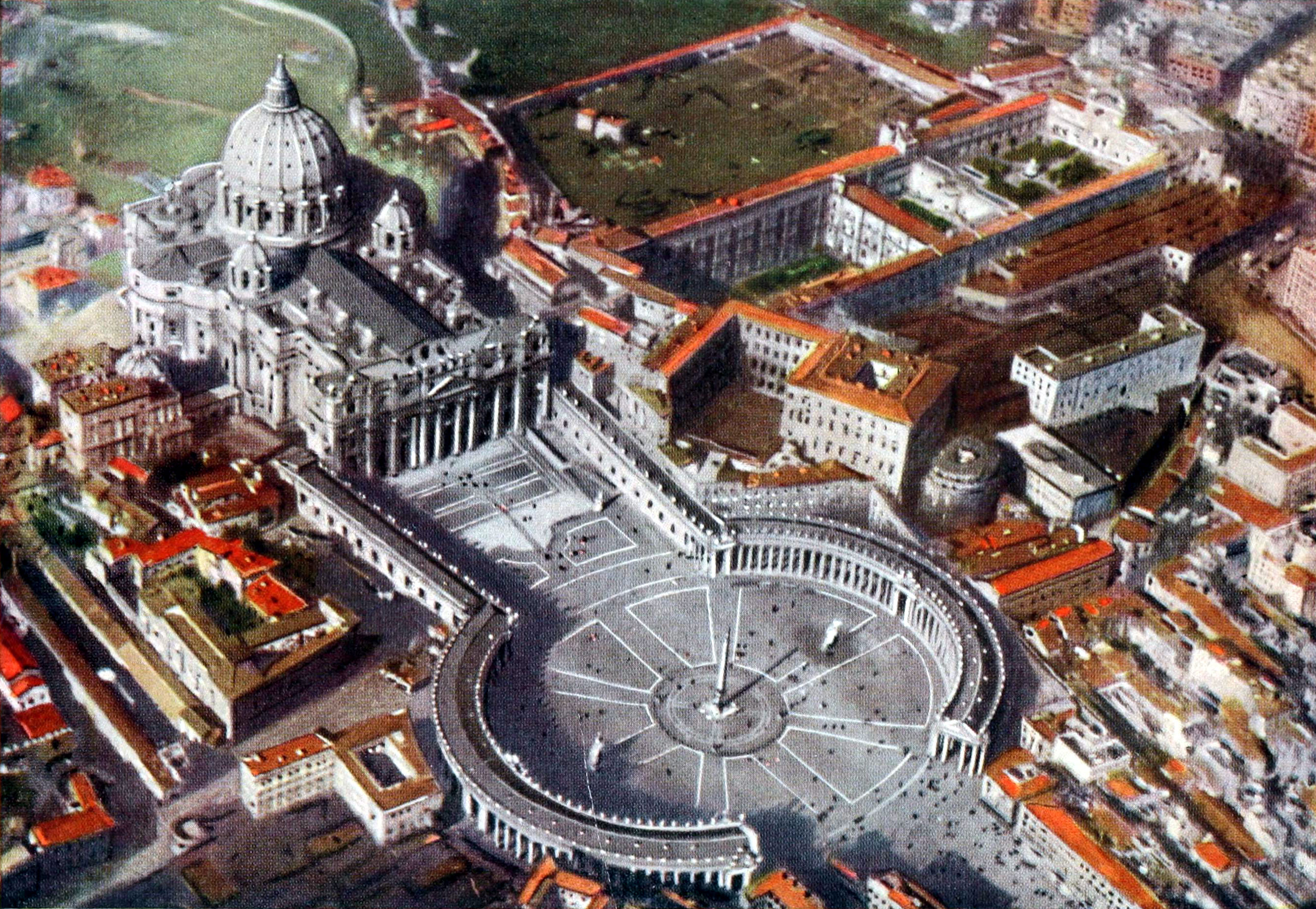 Color aerial view of St. Peter's and the Piazza di S. Pietro at the Vatican.